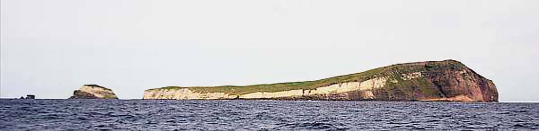 Macauley Island from northeast, with Haszard Island, Kermadec Islands, New Zealand